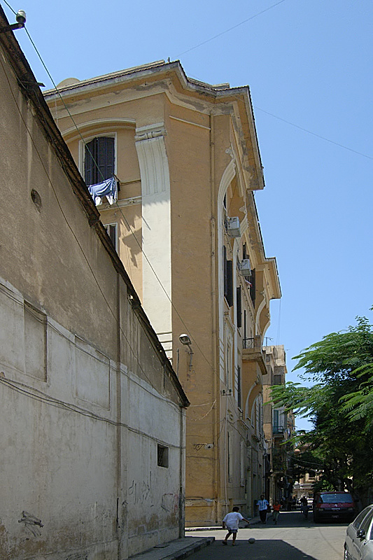 House-museum of Constantine P. Cavafy, Alexandria, Egypt